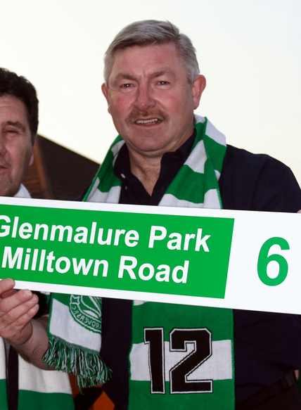 Pat Byrne at the Milltown 20 commemoration